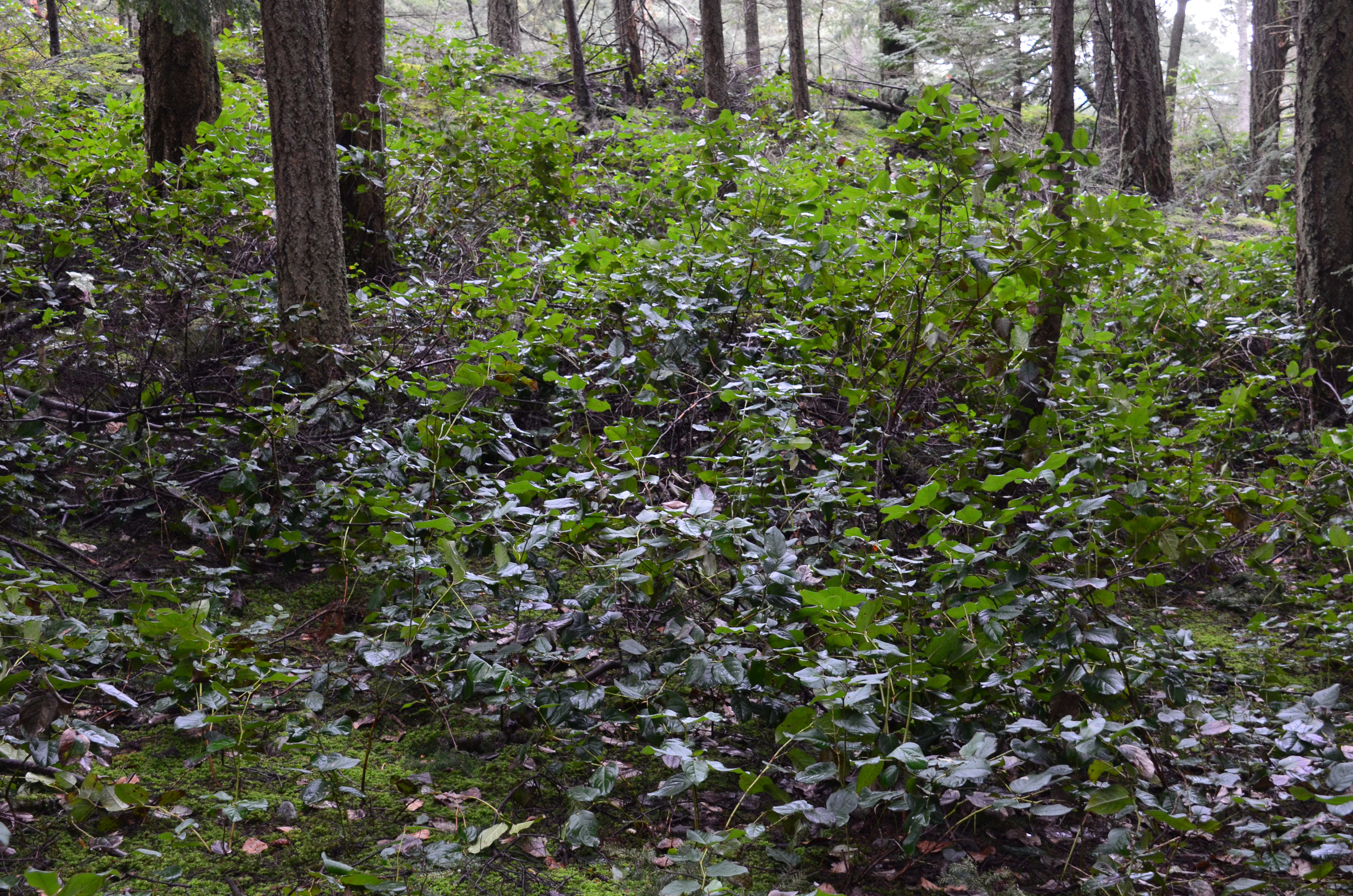 Salal plant found covering the grounds of Lighthouse park